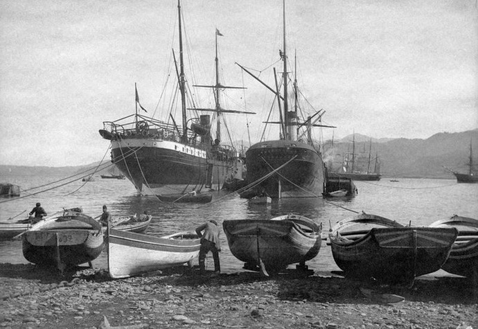 Baku, Sea Port